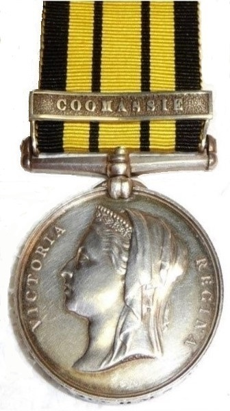 British campaign medal for the 1873-74 Ashantee (or Ashanti) campaign in West Africa